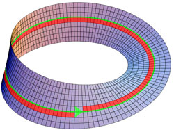 A Möbius strip is non orientable surface.